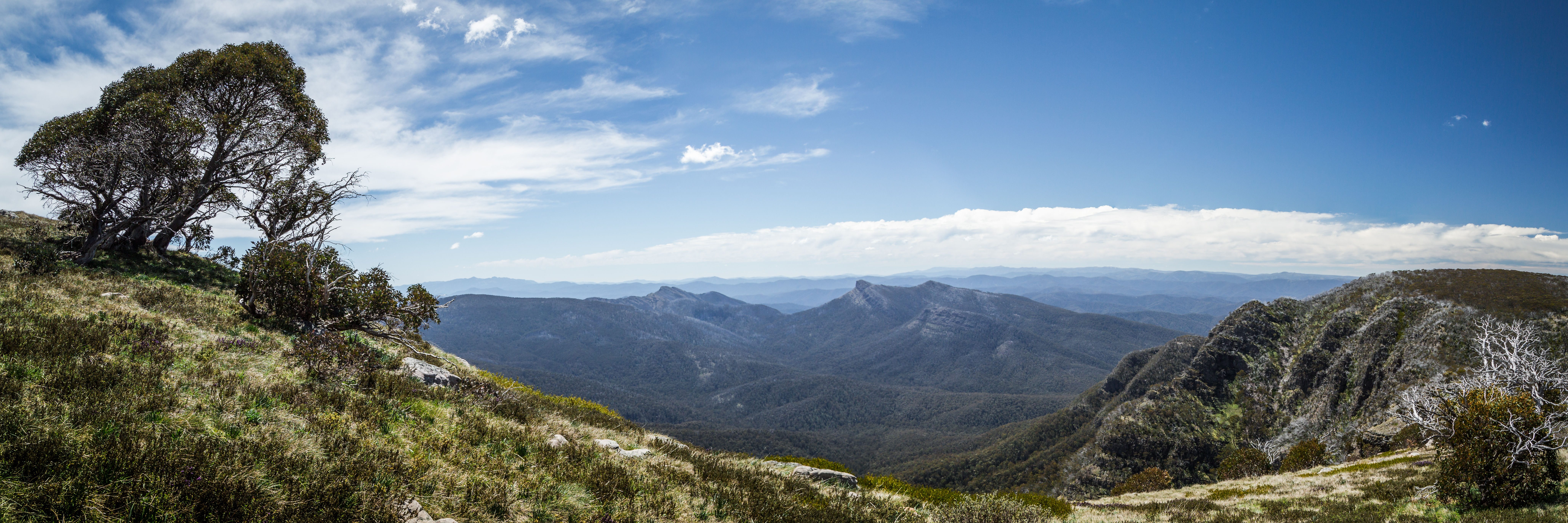 A view of the Victorian Alpine Ranges near Mount Speculation in Victoria Australia.